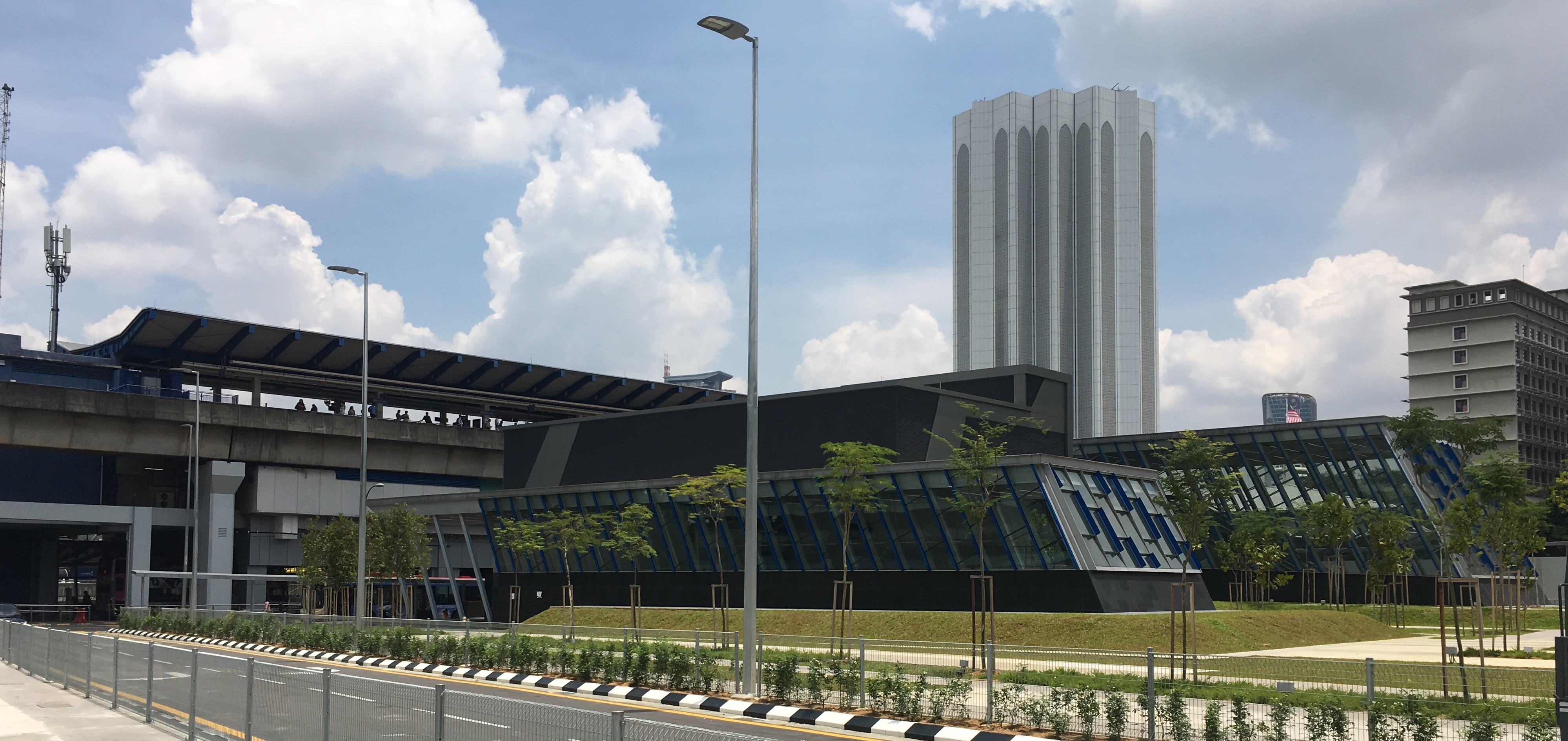 Pasar Seni MRT Station ground level plaza.